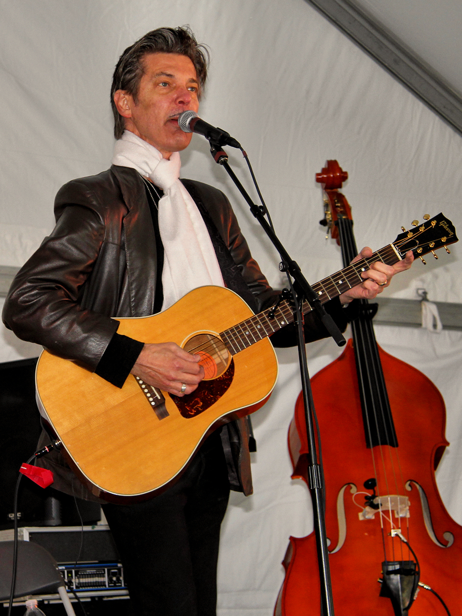 Jesse Sublett at the 2012 Texas Book Festival, Austin, Texas, United States.